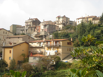 Picture of Platania from the house belonging to the Mayors Parents.